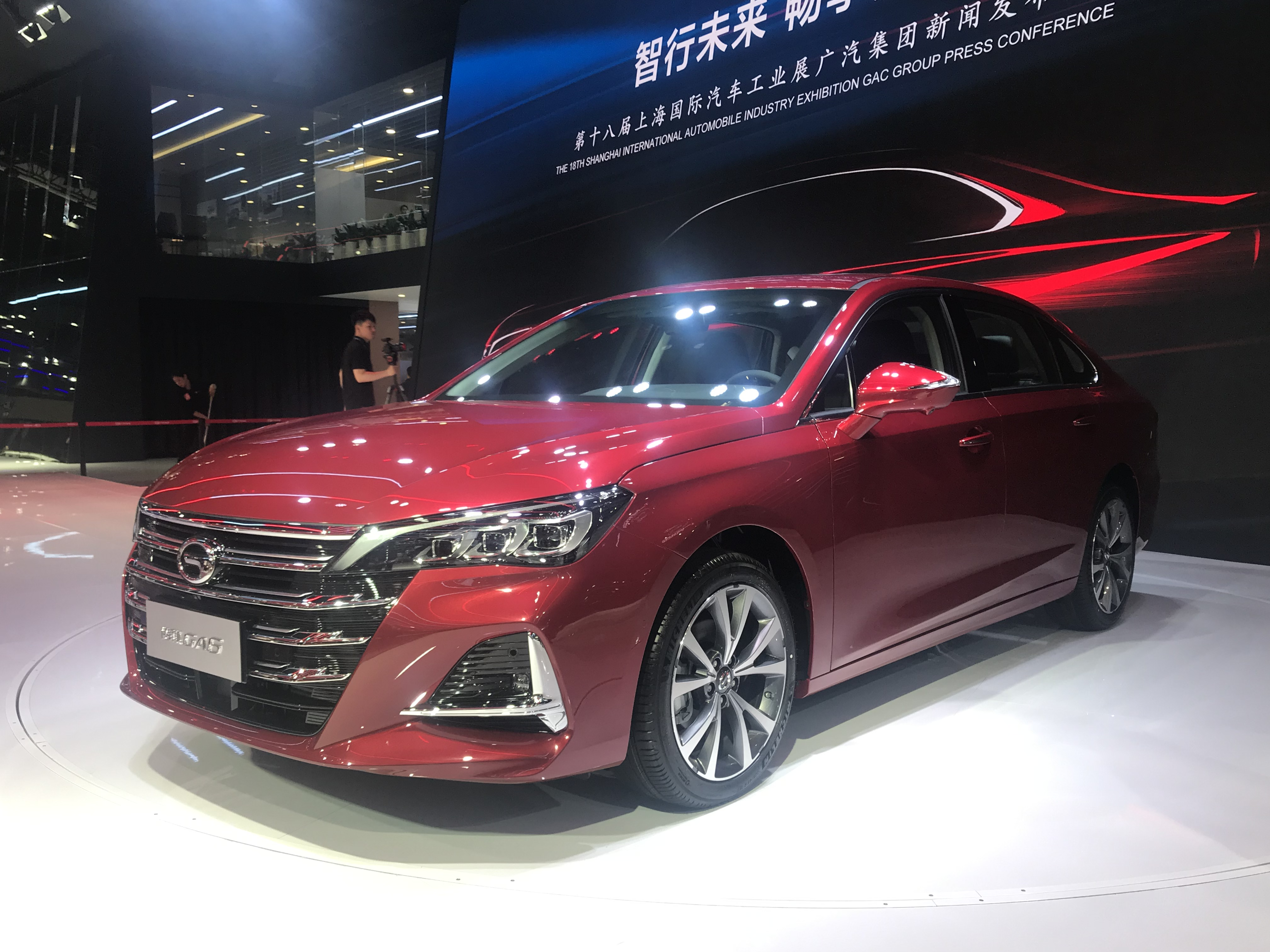 Trumpchi GA6 second generation